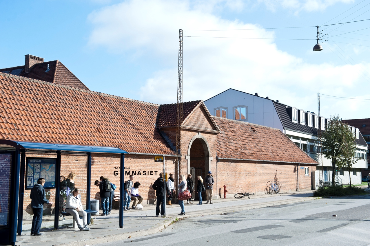 Aalborg Business CollegeDansk: Aalborg Handelsskole